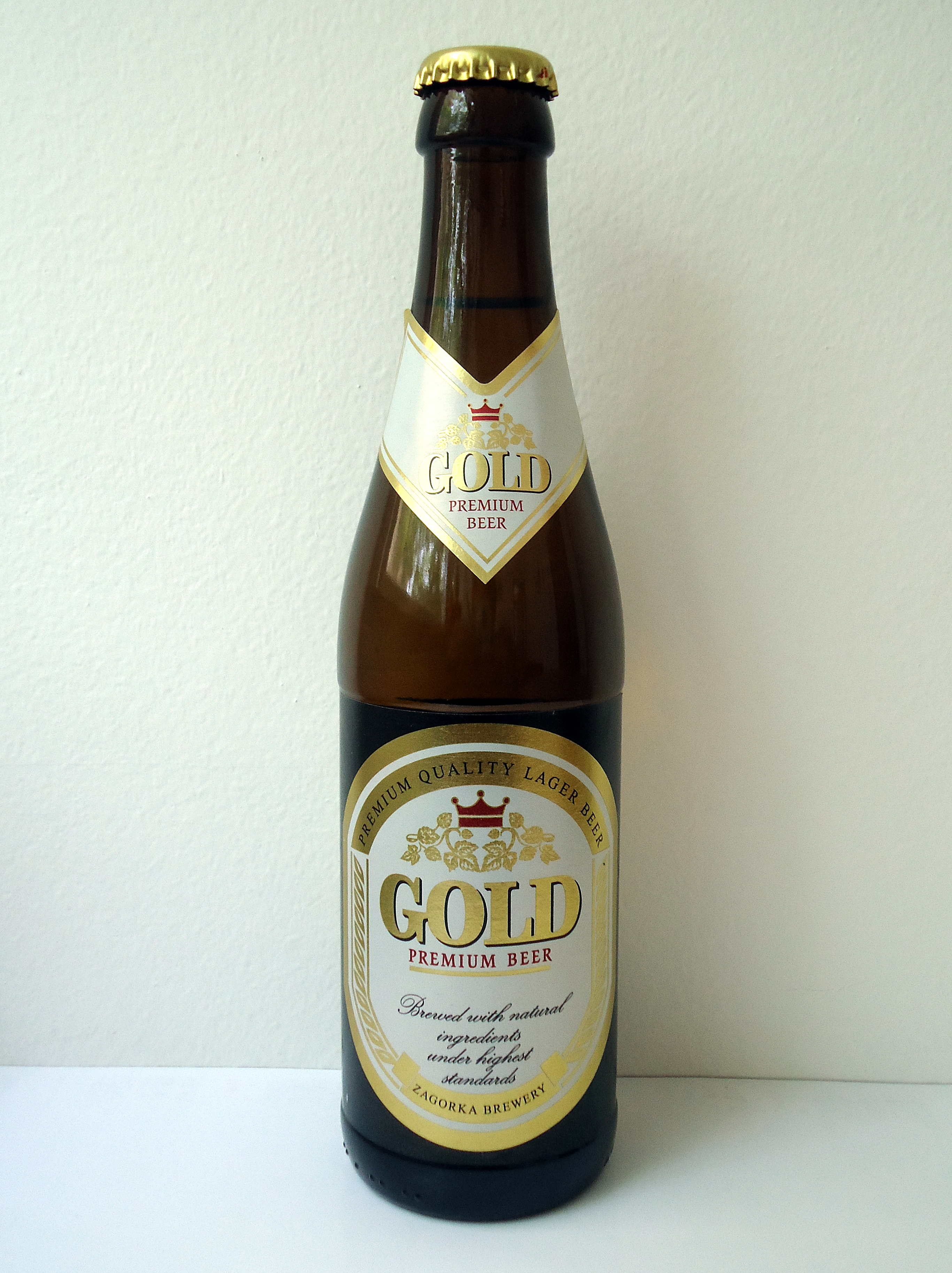 Zagorka Gold BG beer